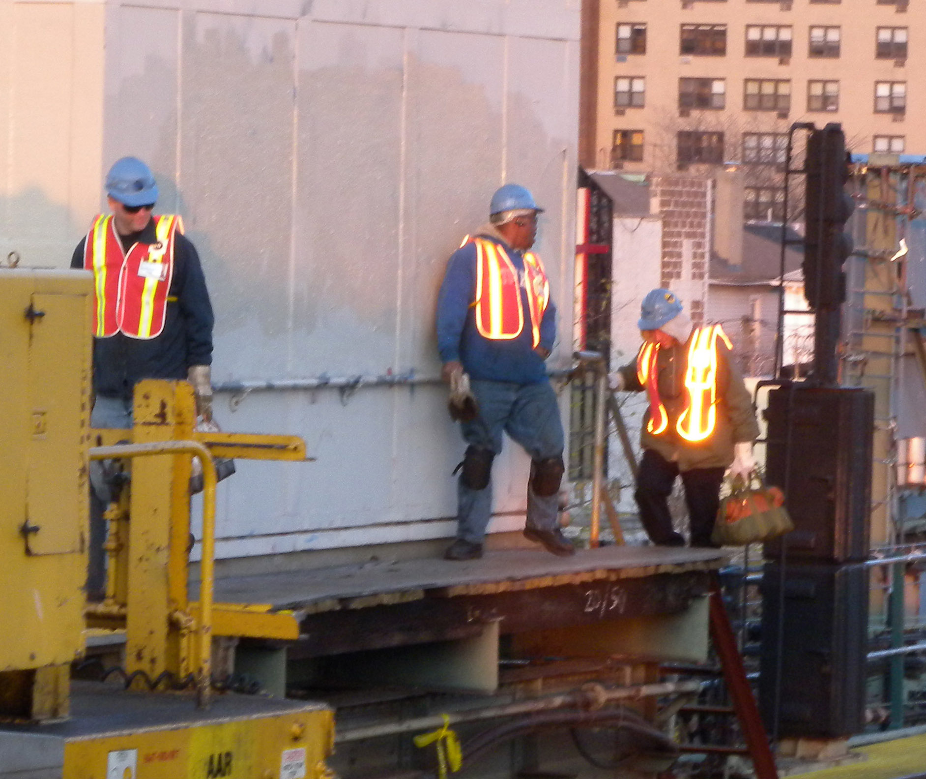 looking northeast from 69th Street station of 7 line at subway workers in retro reflective vests on a sunny afternoon shortly before Sundown.